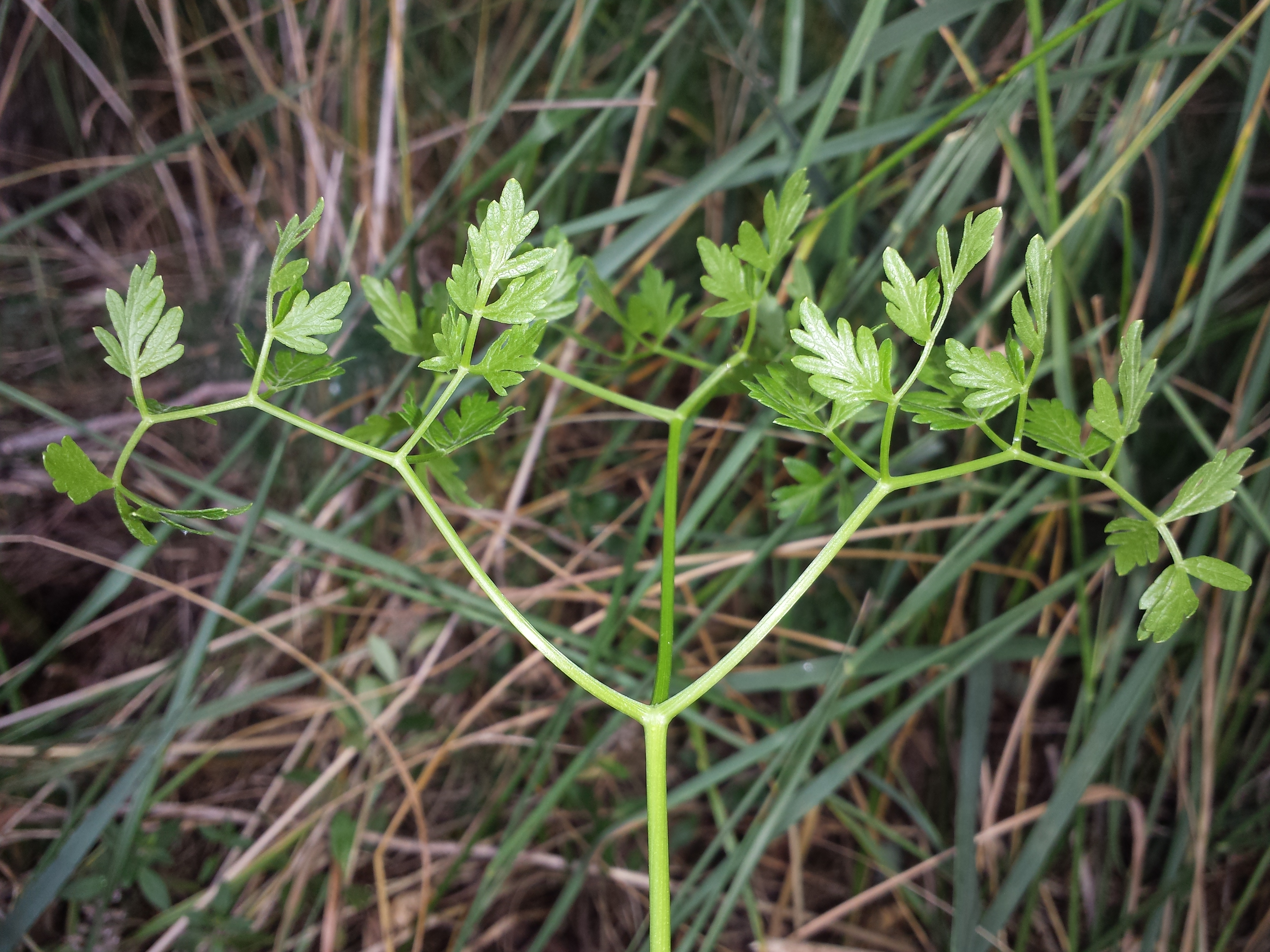 Laubblatt Taxonym: Peucedanum oreoselinum ss Fischer et al. EfÖLS 2008 ISBN 978-3-85474-187-9 Location: Eichleiten to the North of Enzersfeld, district Korneuburg, Lower Austria - ca. 250 m a.s.l. Habitat: semi-dry grassland